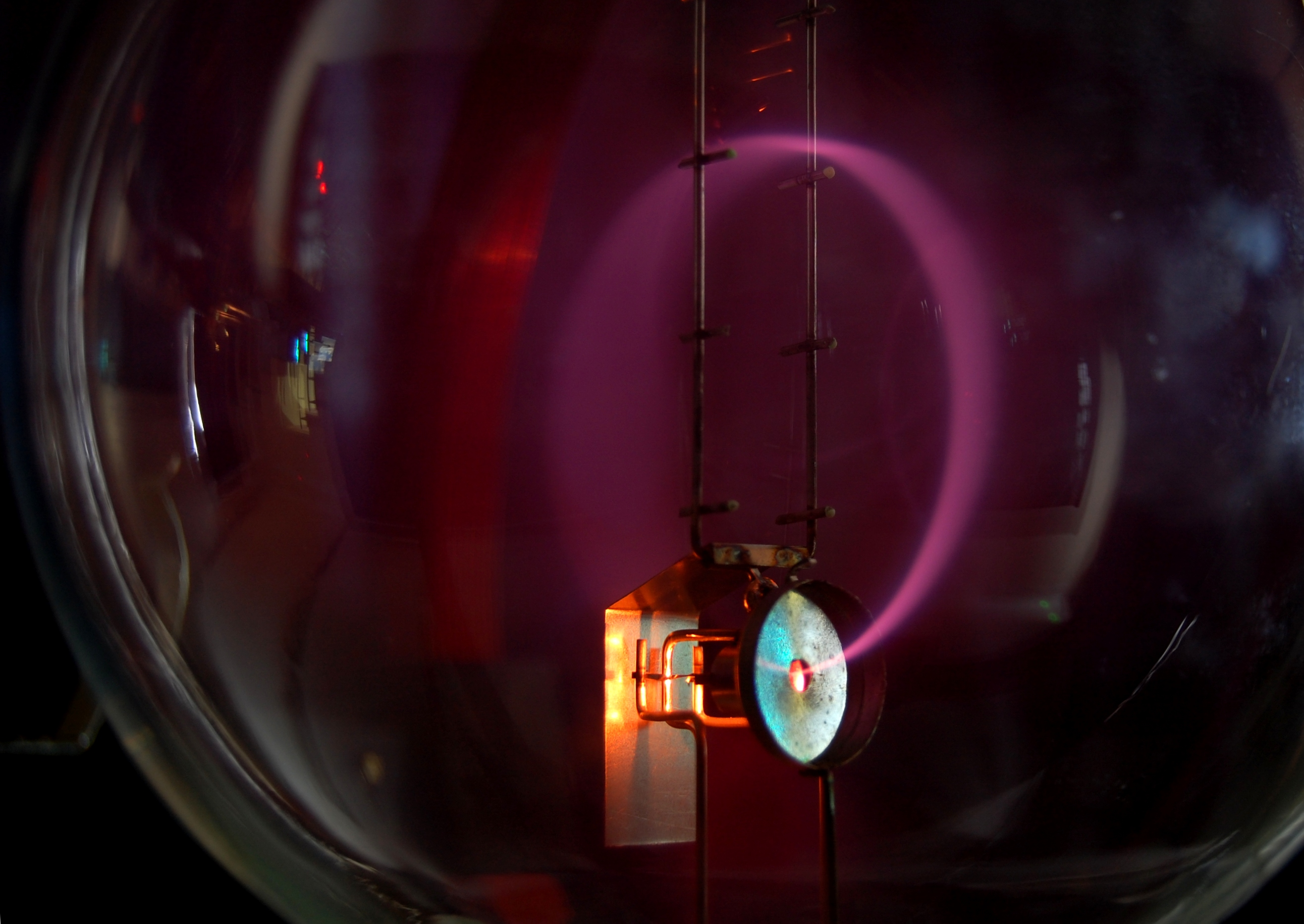 Beam of cathode rays (electrons) moving in a circle in a magnetic field (cyclotron motion). The electrons are produced by an electron gun at bottom, consisting of a hot cathode, a metal plate heated by a filament so it emits electrons, and a metal anode (right) at a high voltage with a hole which accelerates the electrons into a beam. Cathode rays are normally invisible, but enough air has been left in the tube so that the air molecules glow pink from fluorescence when struck by the fast-moving electrons.